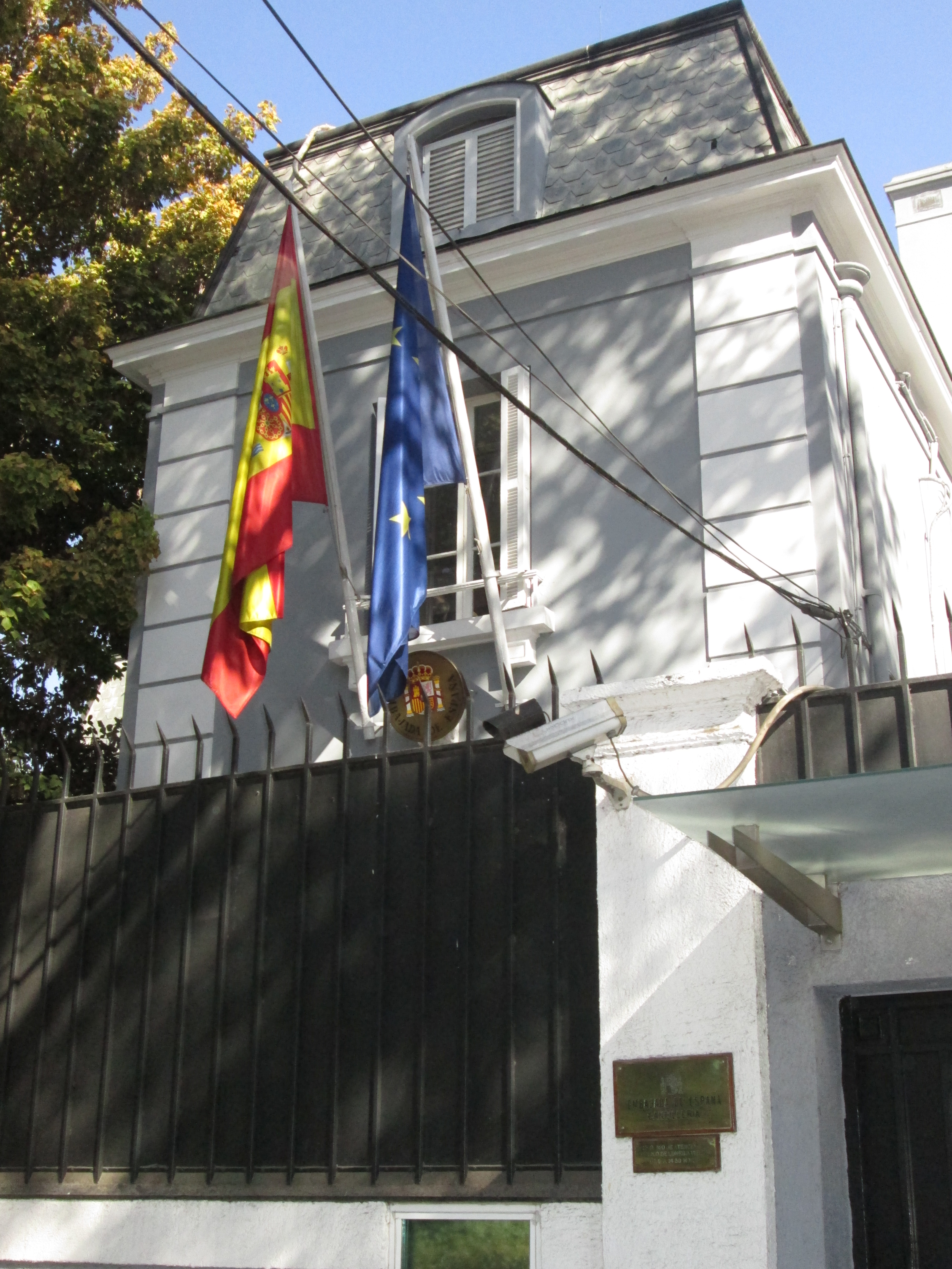 Embassy of Spain in Santiago de Chile